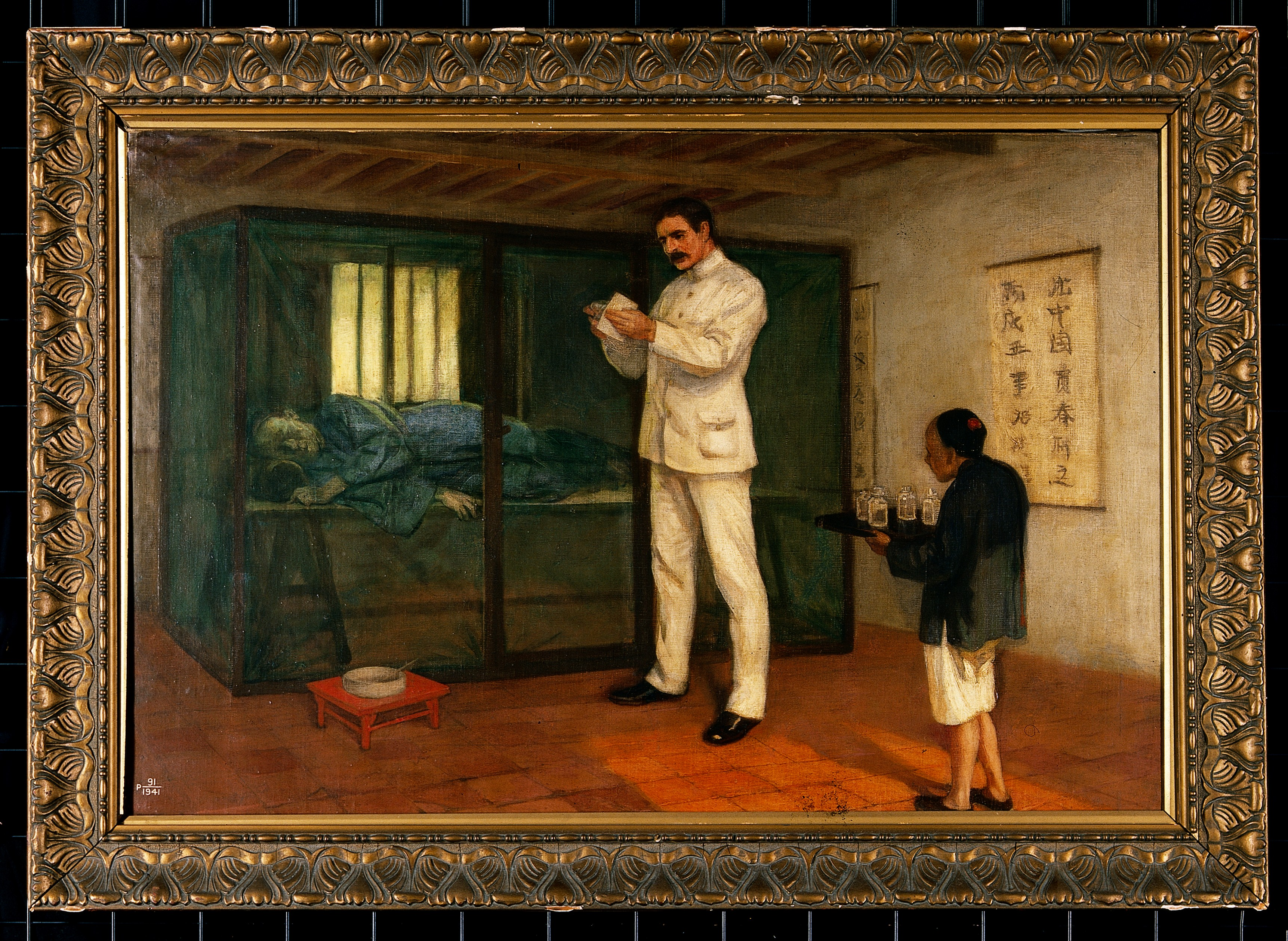 Patrick Manson experimenting with filaria sanguinis-hominis on a human subject in China. Painting by E. Board, ca. 1912. Iconographic Collections Keywords: Ernest Board; Patrick Manson; manson sir patrick